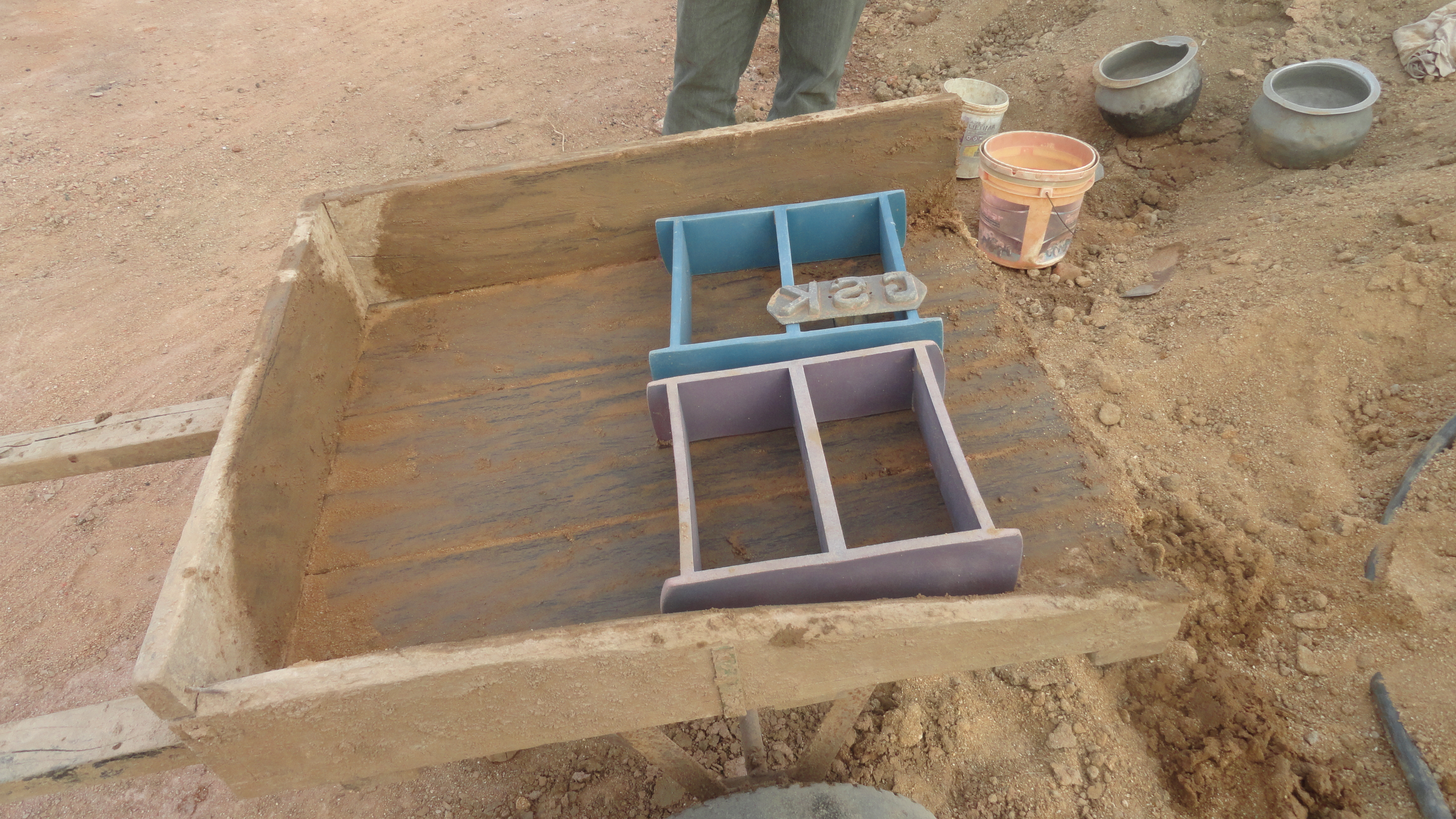 preparation earthern briks near kalluru. of chittoor dist.